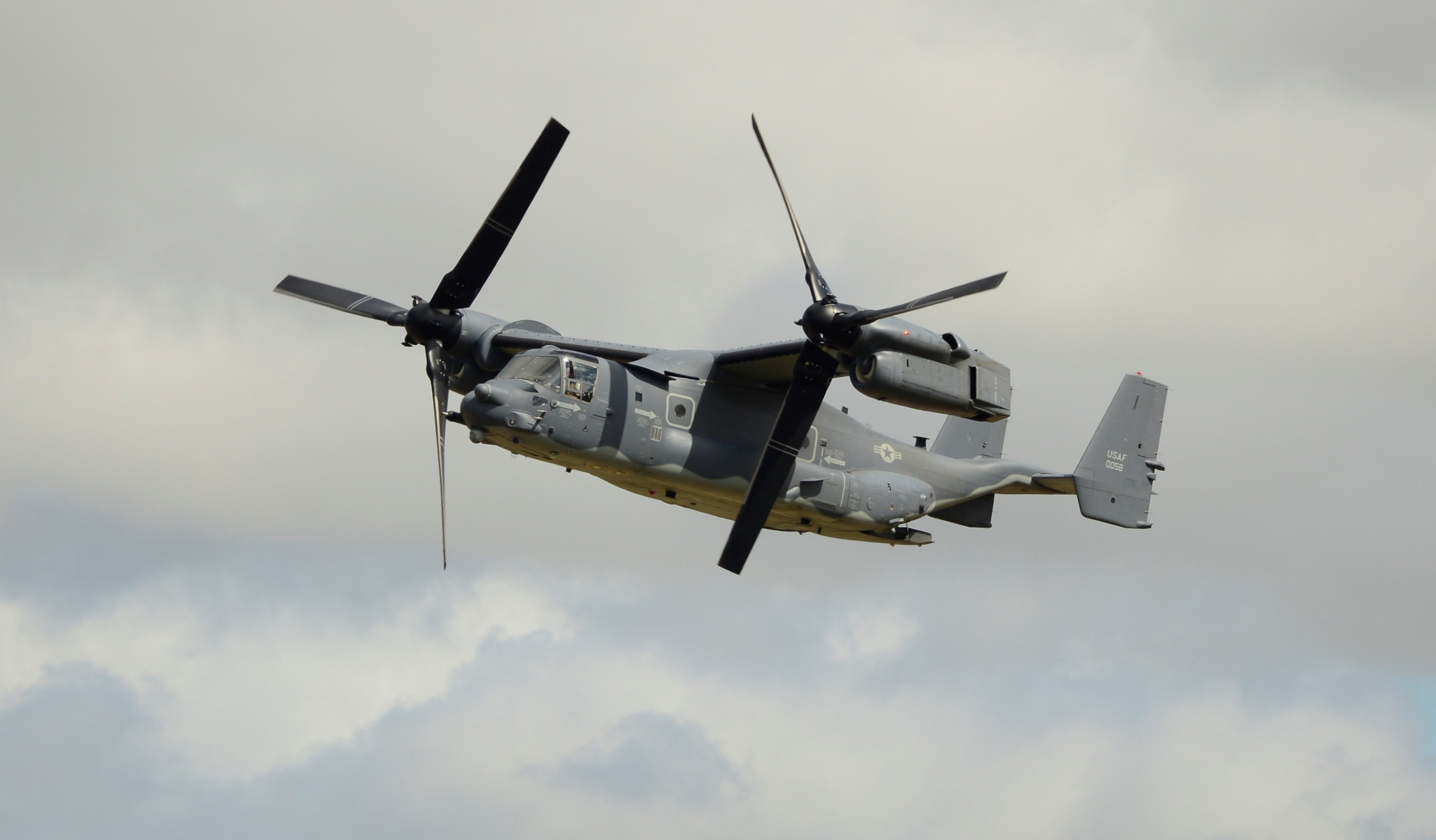 CV-22B Osprey, US Air Force